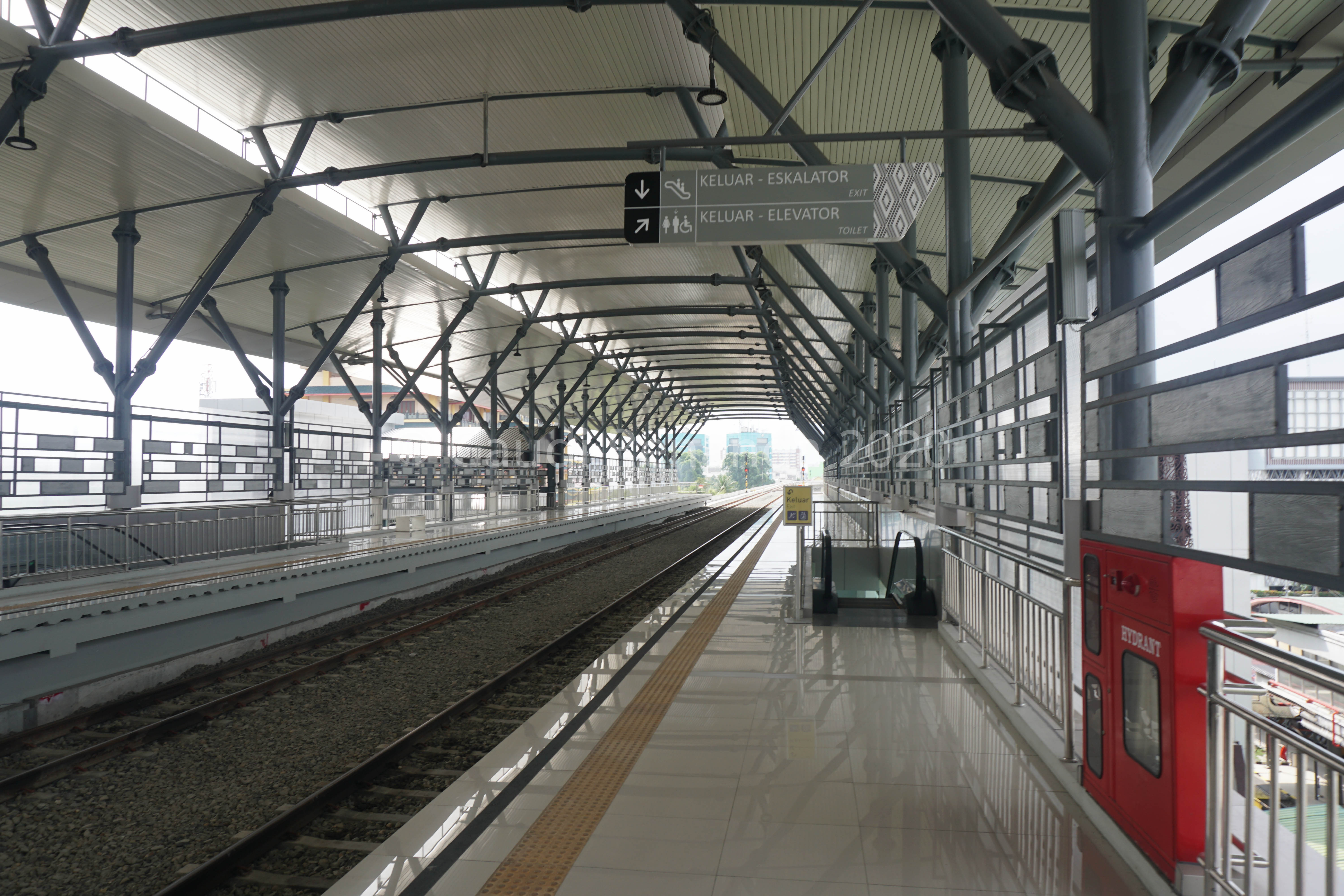 Platform of the elevated Medan Station